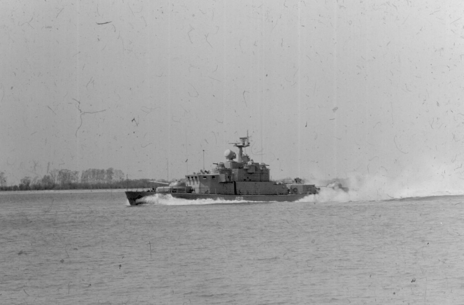 Amur Military Flotilla